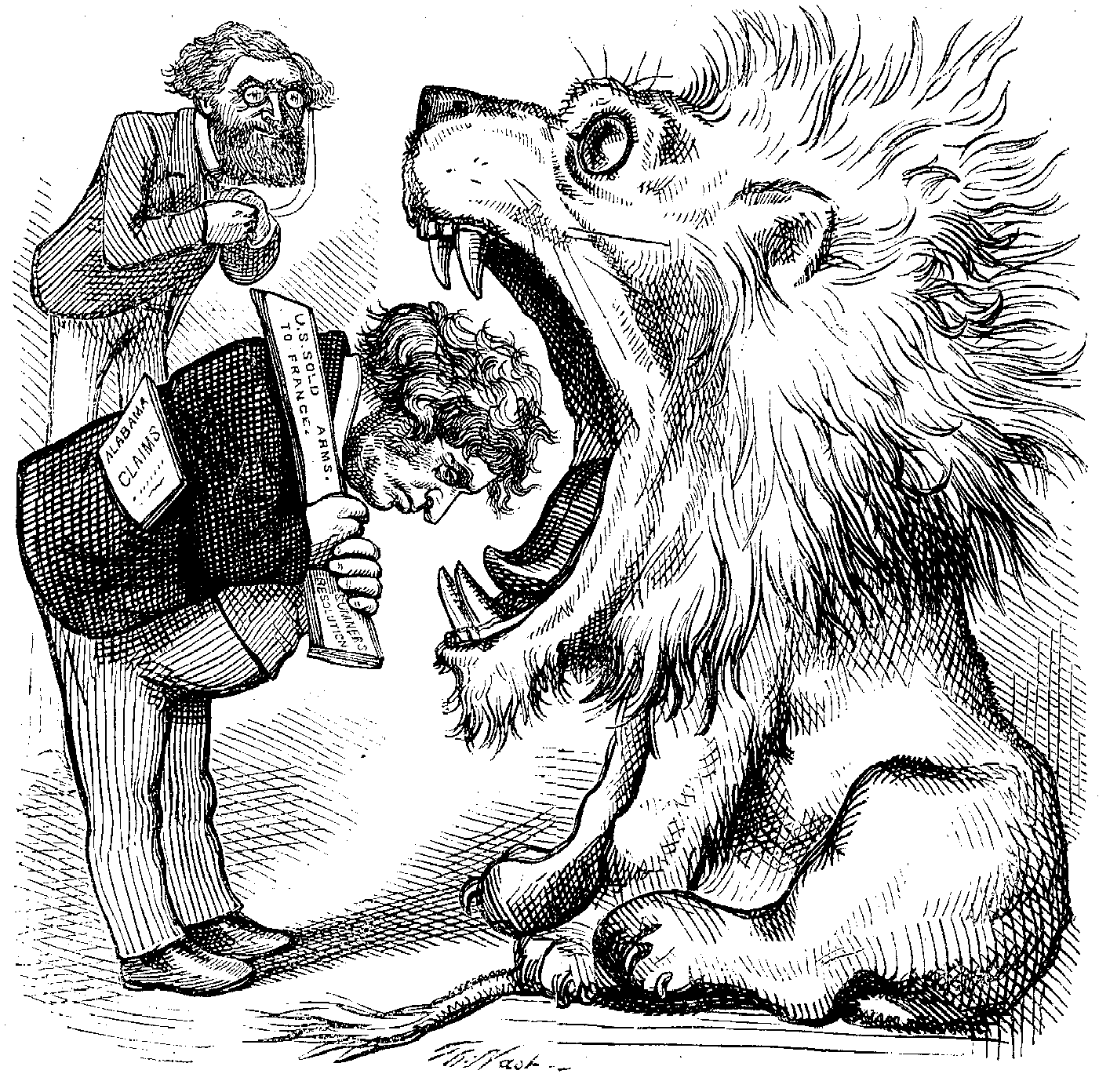 Charles Sumner puts his head in the gaping mouth of a lion while holding papers relating to the investigation that U.S. violated its neutral obligations by selling arms to France during the Franco-Prussian War of 1870. In his pocket are papers relating to U.S. claims against Great Britain for violating its neutral obligations by outfitting privateers during the Civil War ("Alabama claims"). Carl Schurz looks on anxiously in the background.